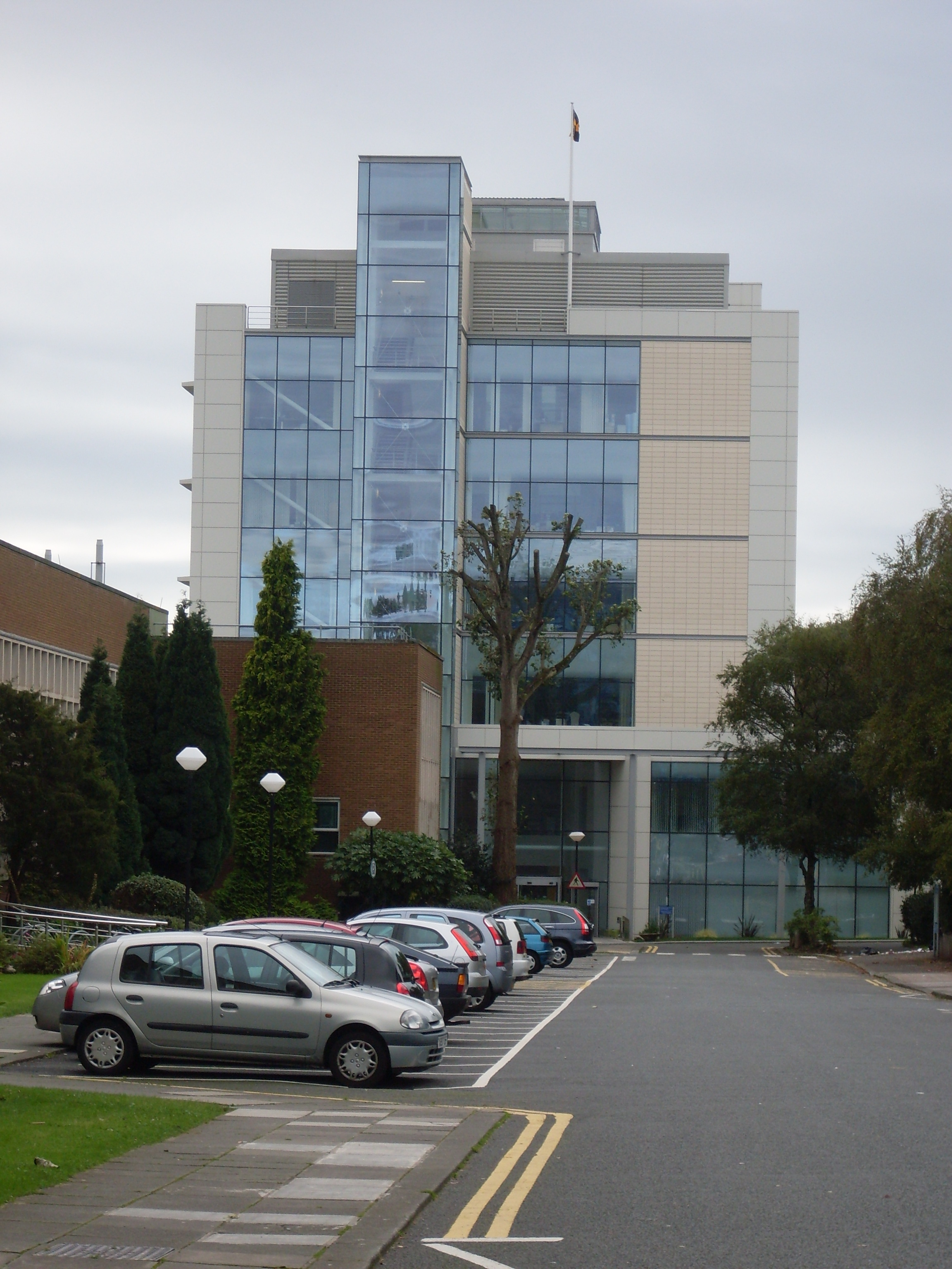 The ILS (Institute of Life Sciences) Building at Swansea University. Contains the Boots Innovation Centre and IBM Blue-C Supercomputer.